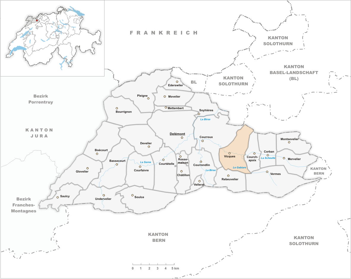 Municipality Vicques